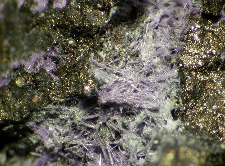 Elyite (Field of view 3 mm) Locality: Lautenthal smelter (slag locality), Lautenthal, Harz Mts, Lower Saxony, Germany